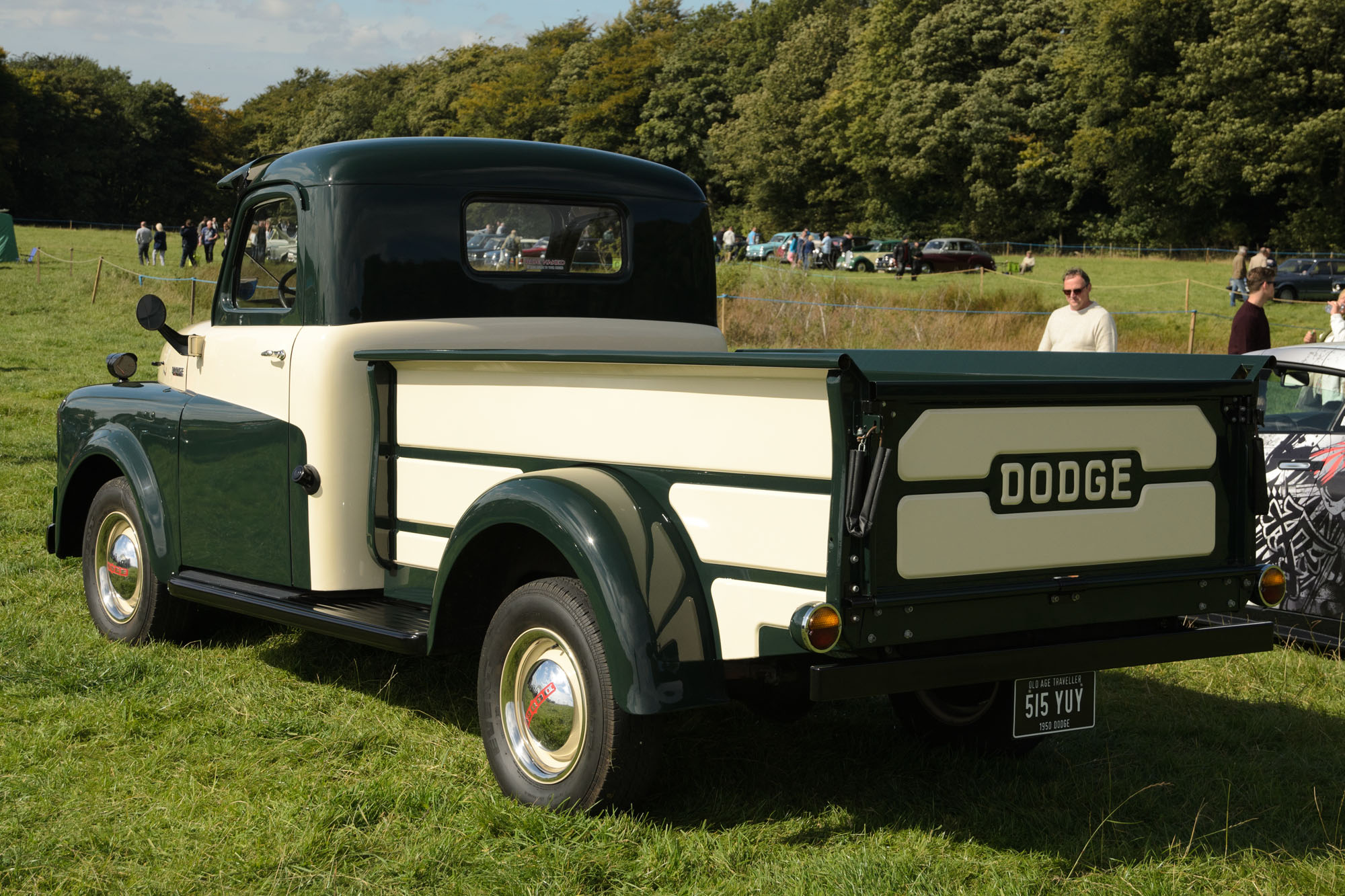 Hoghton Tower Classic Car Show 13/09/2015